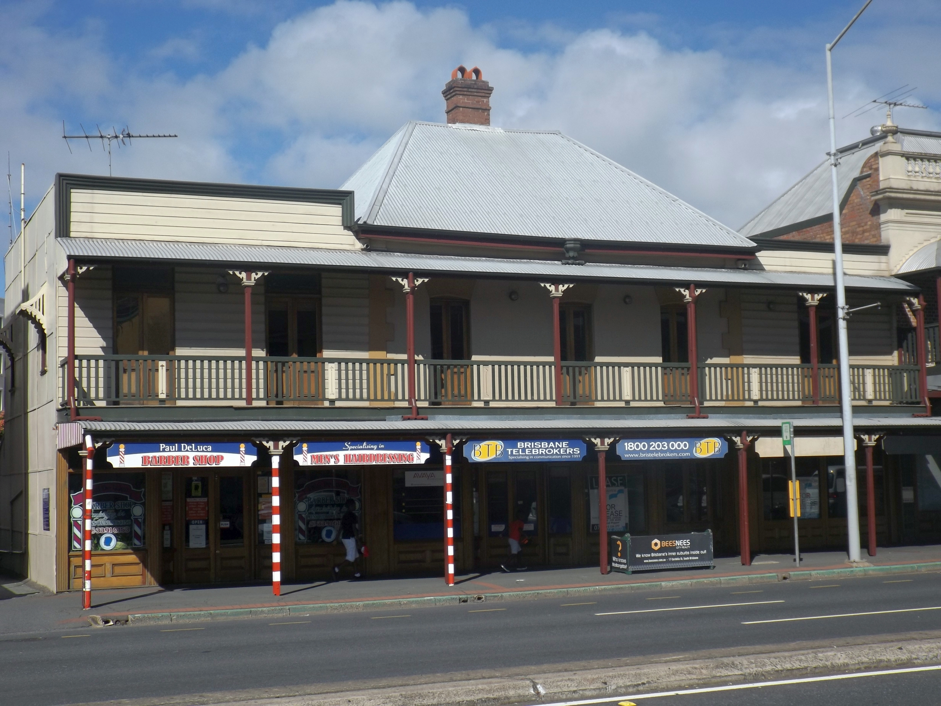 Photo of Pollock's Shop House at Woolloongabba, Brisbane, Queensland, Australia.